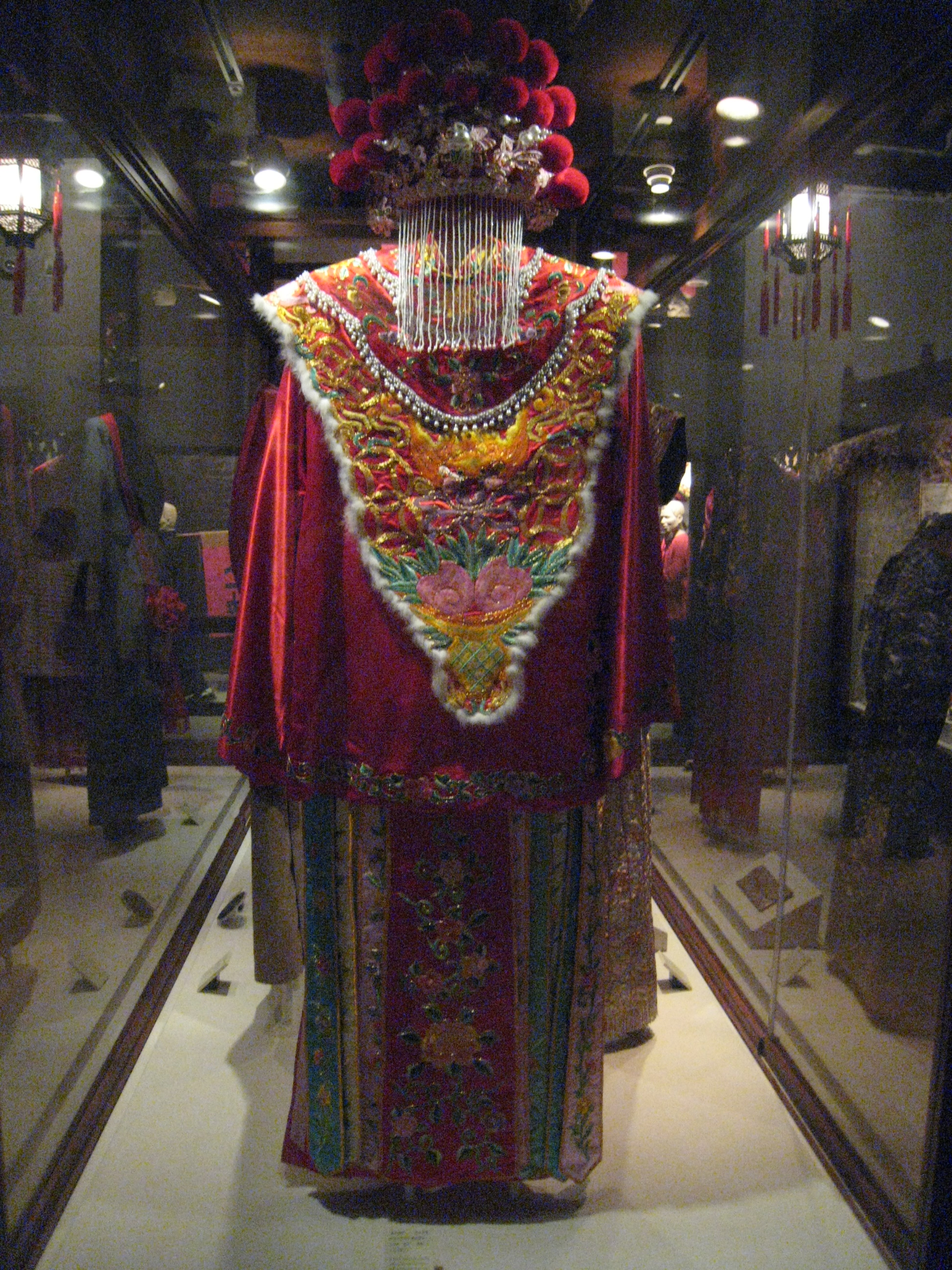 Chinese marriage clothes for a female